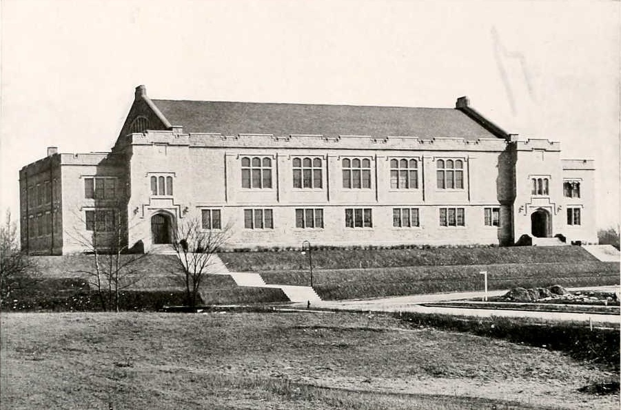 Photograph of The Men's Gymnasium at Indiana University, built c. 1917